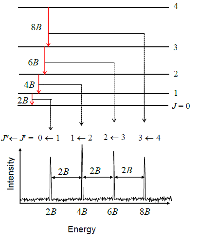 This diagram illustrates how transitions between the rotational energy levels of molecules map onto the energies at which these transitions are observed during laboratory experiments.